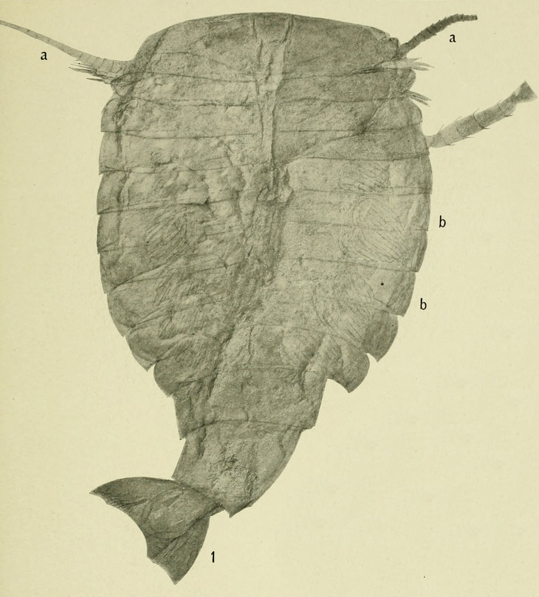 Cropped image of taxon in file name